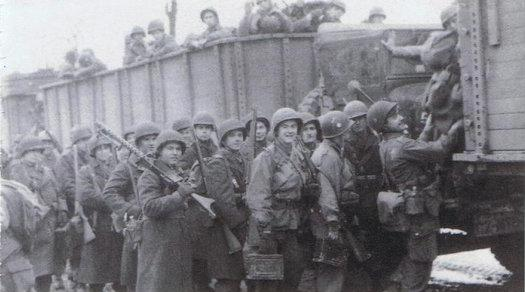 Compañía Easy marchando a Foy